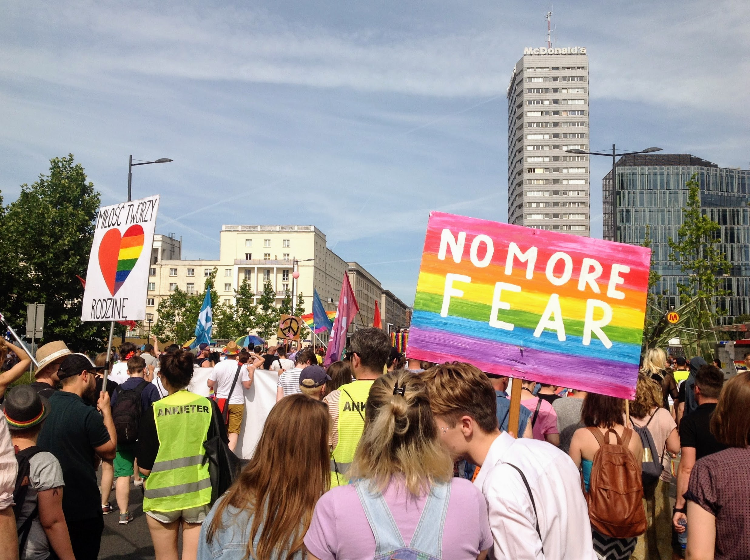 Parada Równości 2018